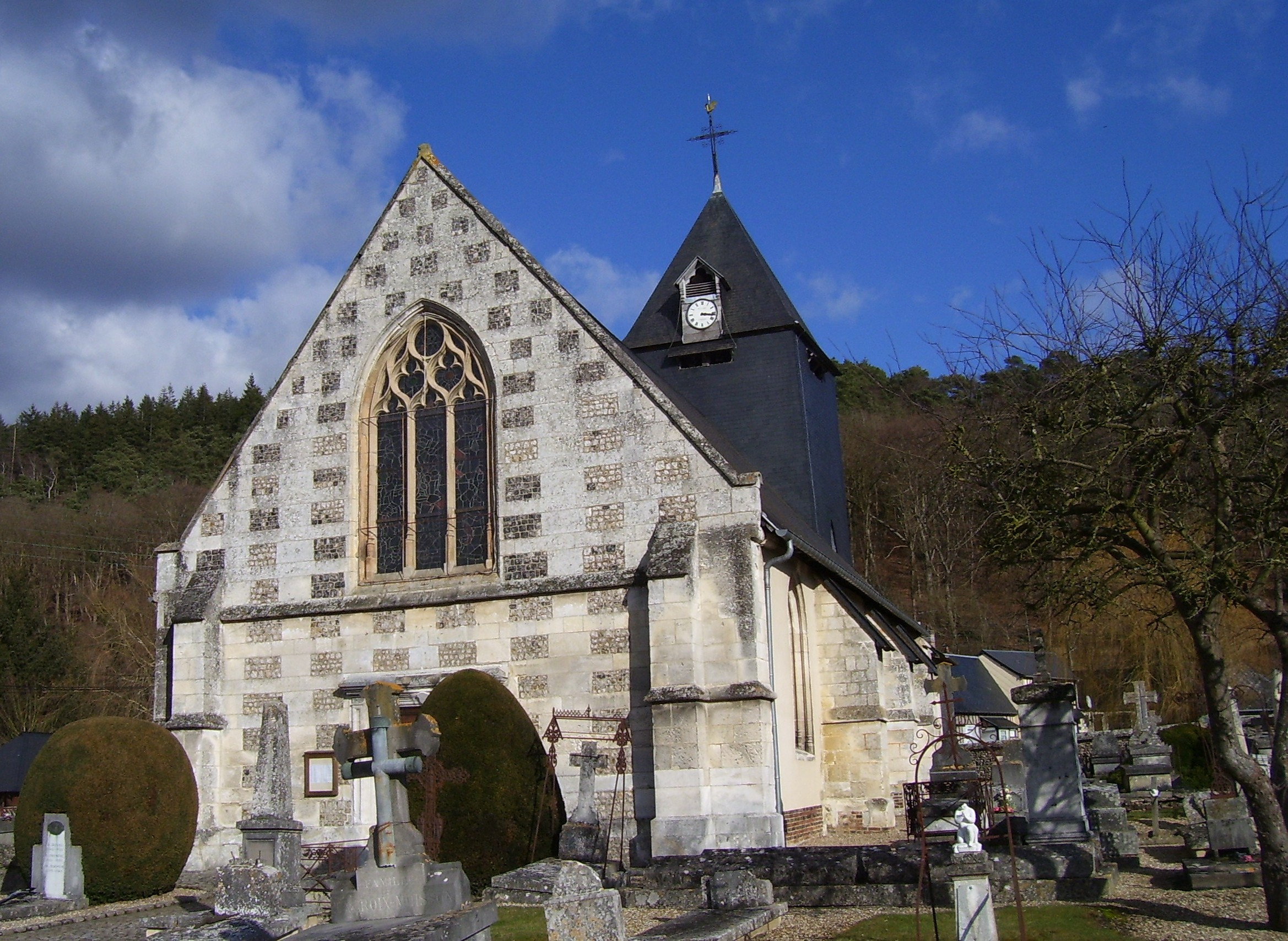 Church Sainte-André in Nassandres in the Eure department in Haute-Normandie in northern France. The church was built in the 12th century and enlarged in the 16th century. The sacristy was built in the 17th century.